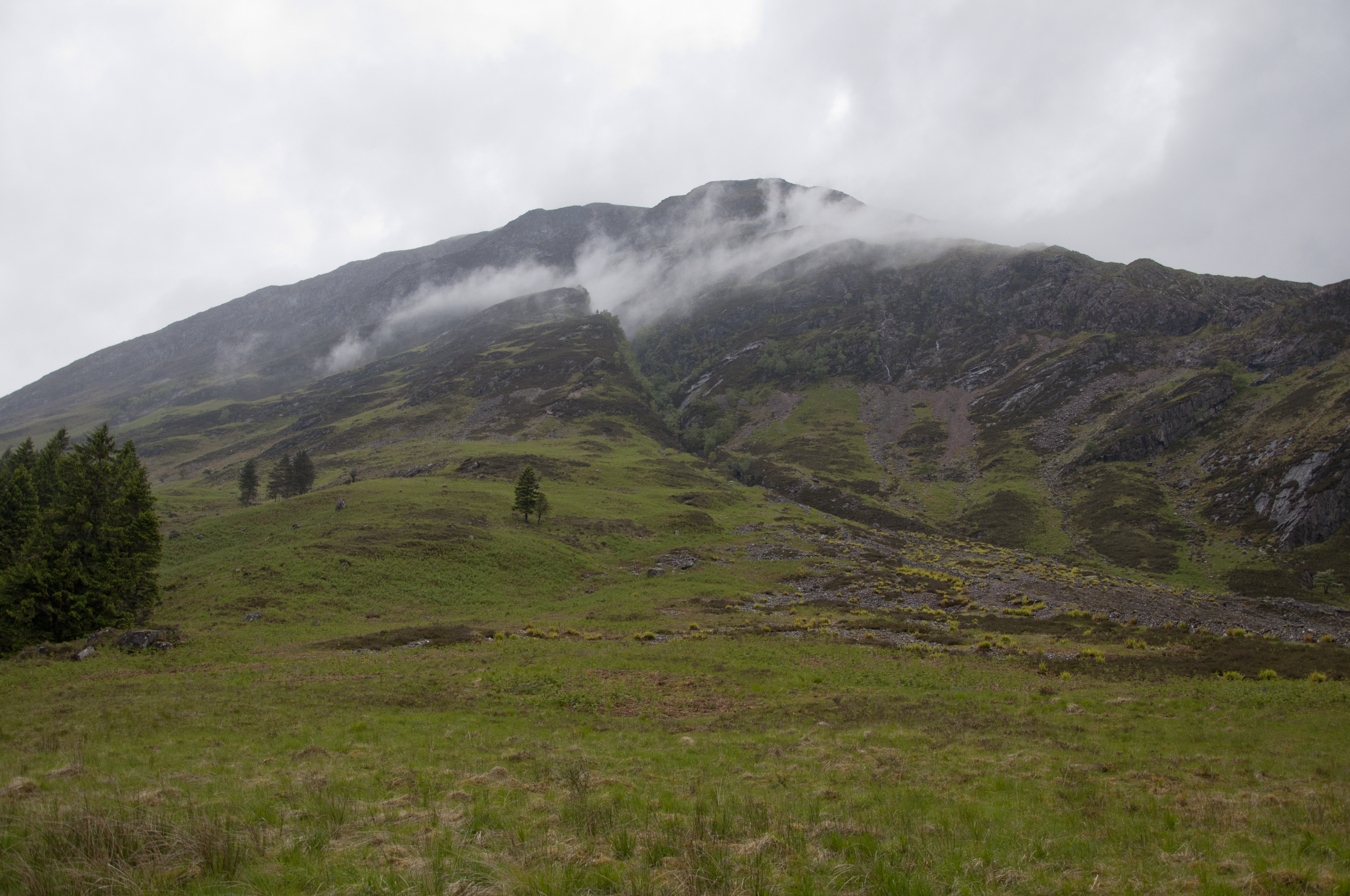 Clachaig Gully, Glen Coe, Scotland